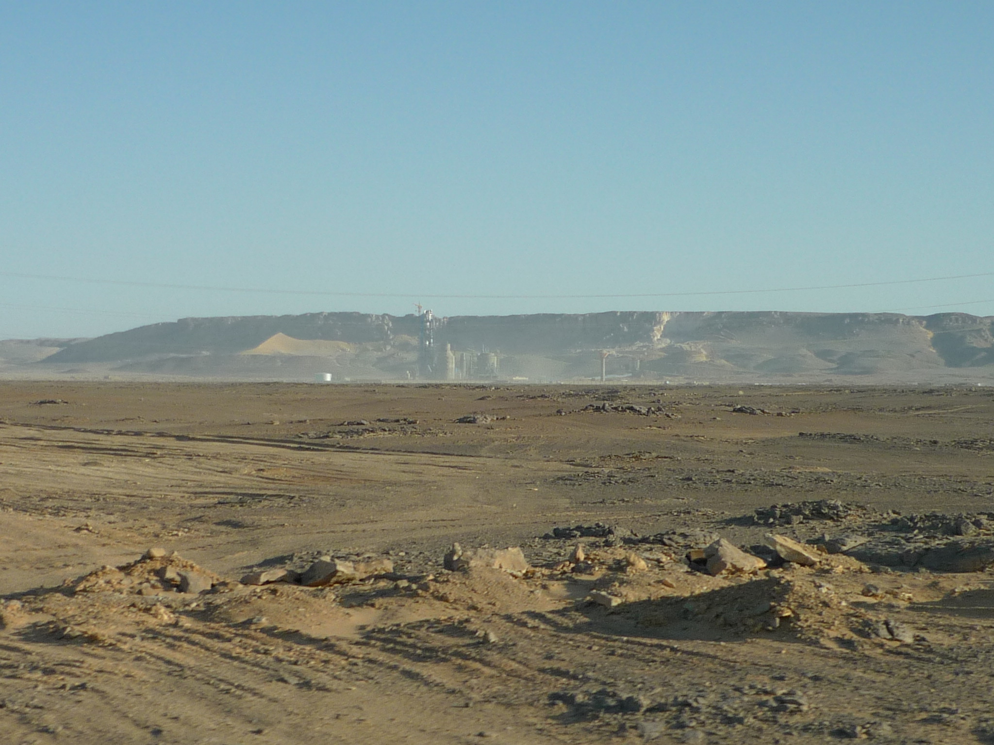 Cement plant between Aswan and Abu Simbel, in the Libyan Desert, Aswan Governorate - southern Egypt.